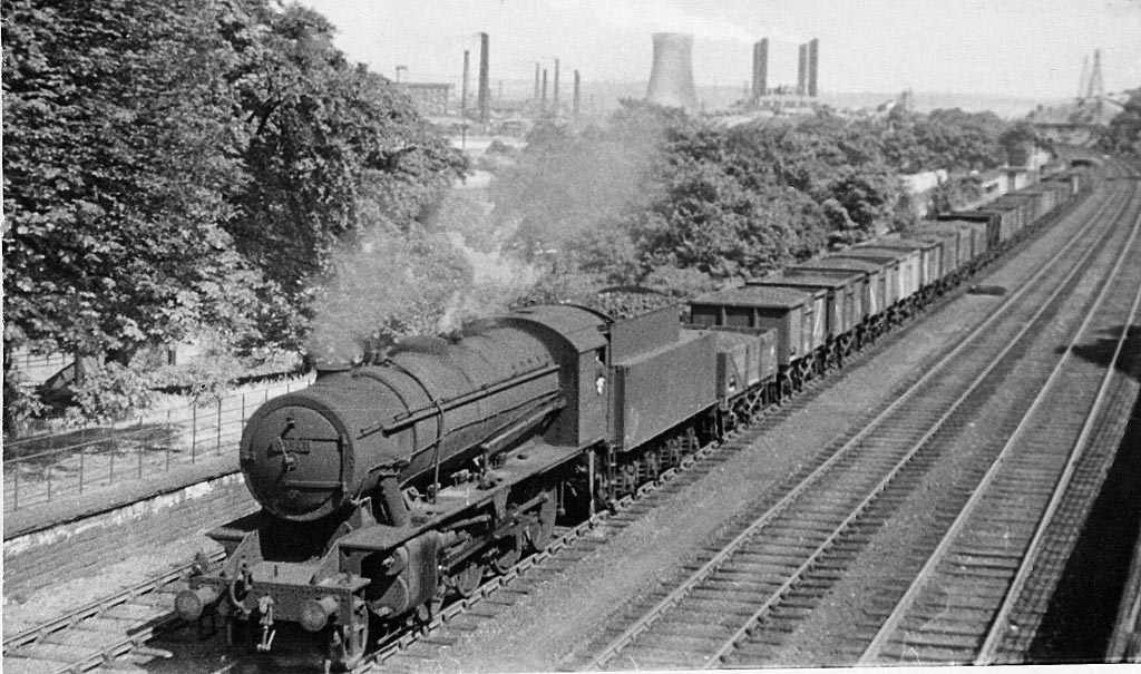 Westbound coal train between Ravensthorpe and Mirfield. View NE, towards Leeds and Wakefield; ex-Lancashire & Yorkshire (Calder Valley) Manchester - Sowerby Bridge - Wakefield - Normanton main line, the four-track section also shared by the ex-London & North Western Manchester - Huddersfield - Dewsbury - Leeds main line. The train, hauled by ex-War Department 2-8-0 No.90541, is westbound, probably from Crofton or Carlton Sidings east of Wakefield.